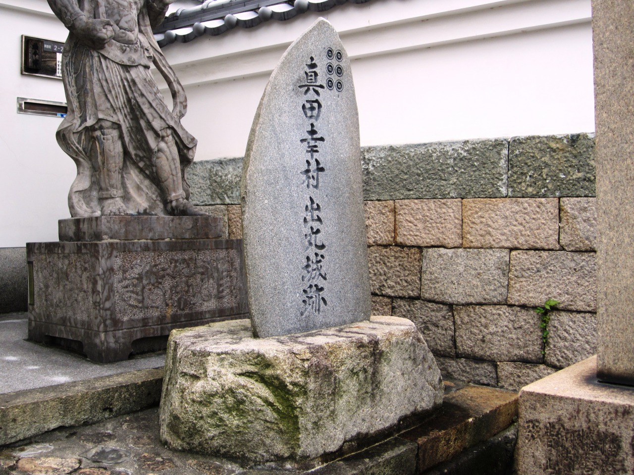 Site of Sanada Yukimura Demarujō in Osaka, Osaka.